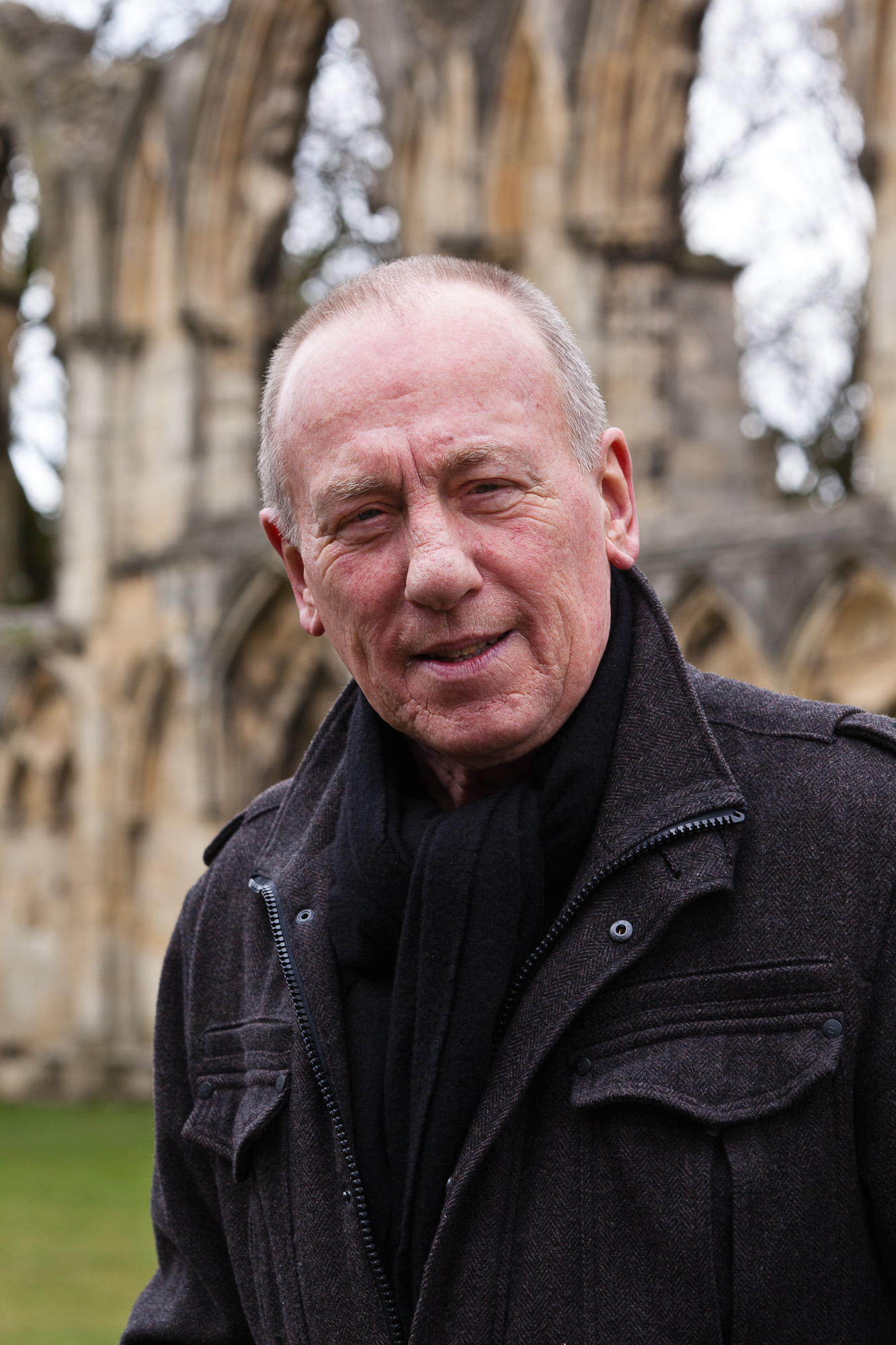 Christopher Timothy, actor, who played Christ in the 1980 performances of the York Mystery Plays.